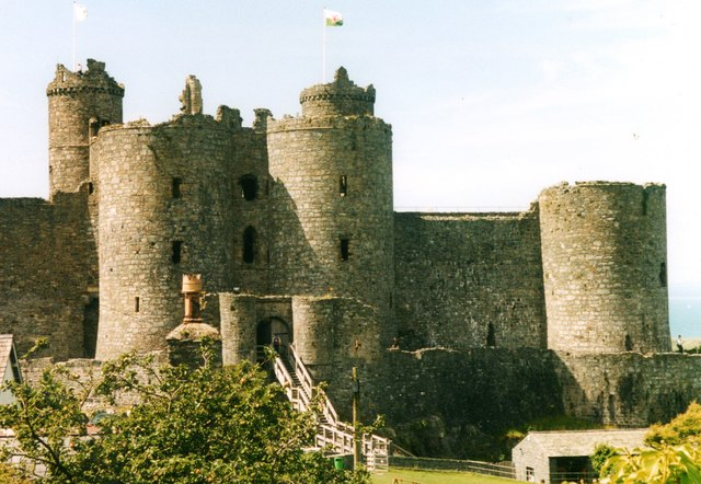 Harlech Castle From the front showing the entrance.